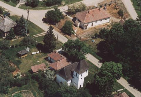 Szamosbecs, Hungary, aerialphotography